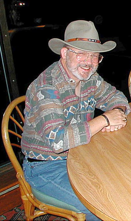 UFO researcher Karl Pflock at the "Encounters at Indian Head" conference in New Hampshire on September 16, 2000.